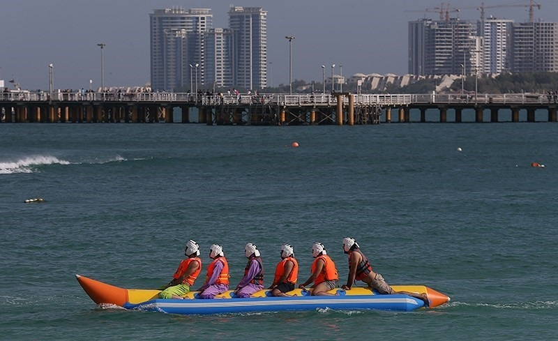 Kish Island during Norouz holidays